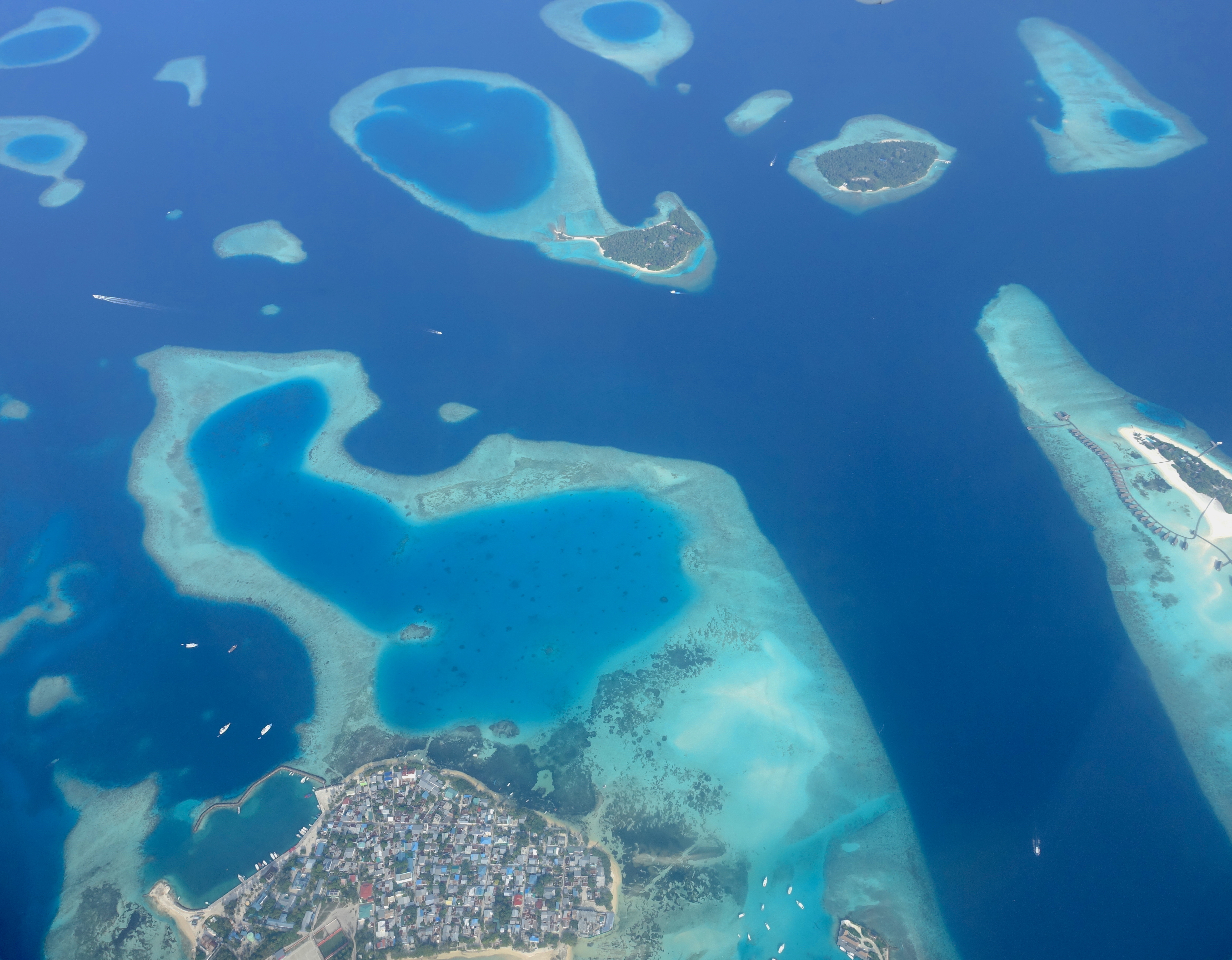 Aerial view of Guraidhoo in Kaafu Atoll, Maldives. The view is facing west and Guraidhoo is the inhabited island at the bottom of the photo.